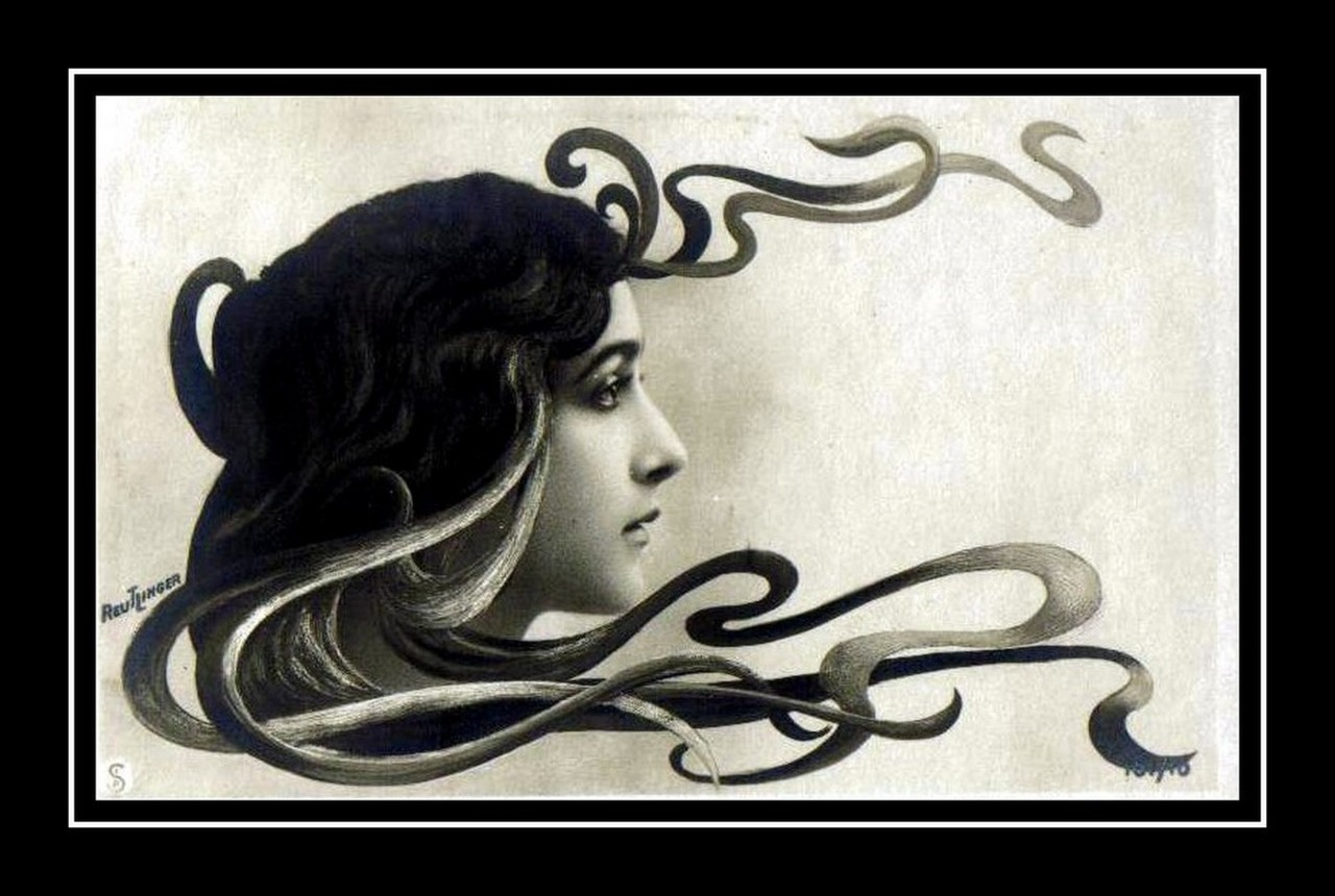 Postcard